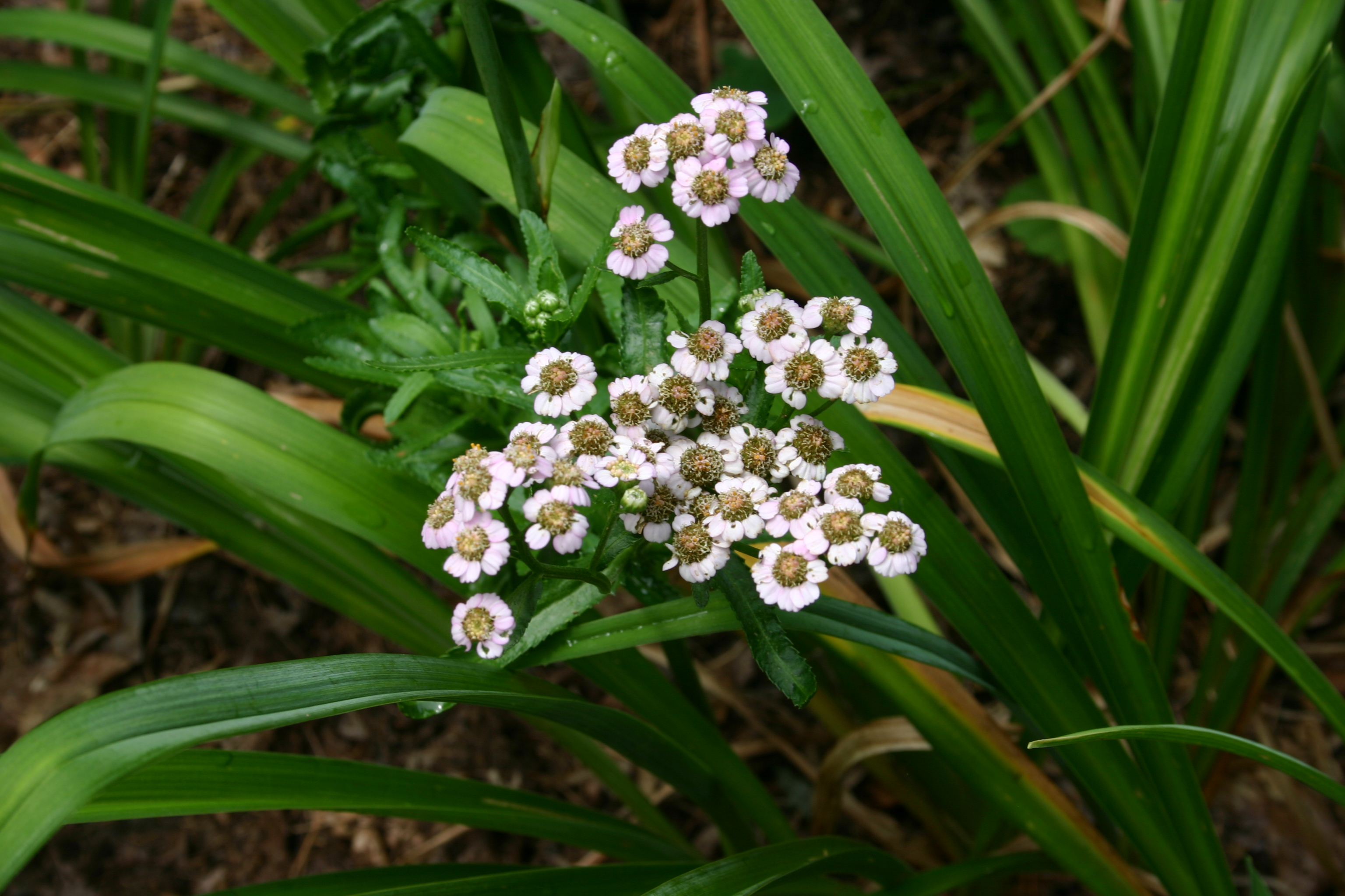 flowers of Achillea alpina (syn. A. sibirica). Foliage in background belongs to a hybrid daylily.